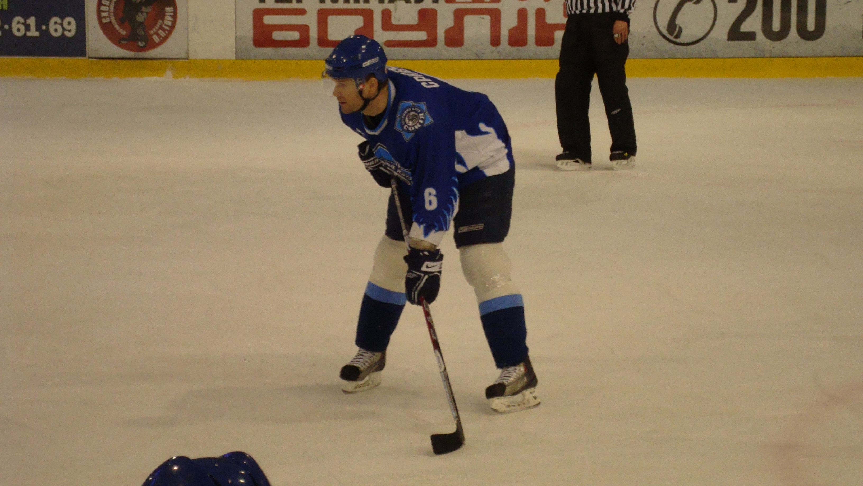 Defender Andrei Sryubko #6 of the Sokil Kyiv stands during the Belarusian Extraliga game against Khimvolokno at Terminal on March 1, 2010 in Brovary, Ukraine. Khimvolokno won the game 4-2.